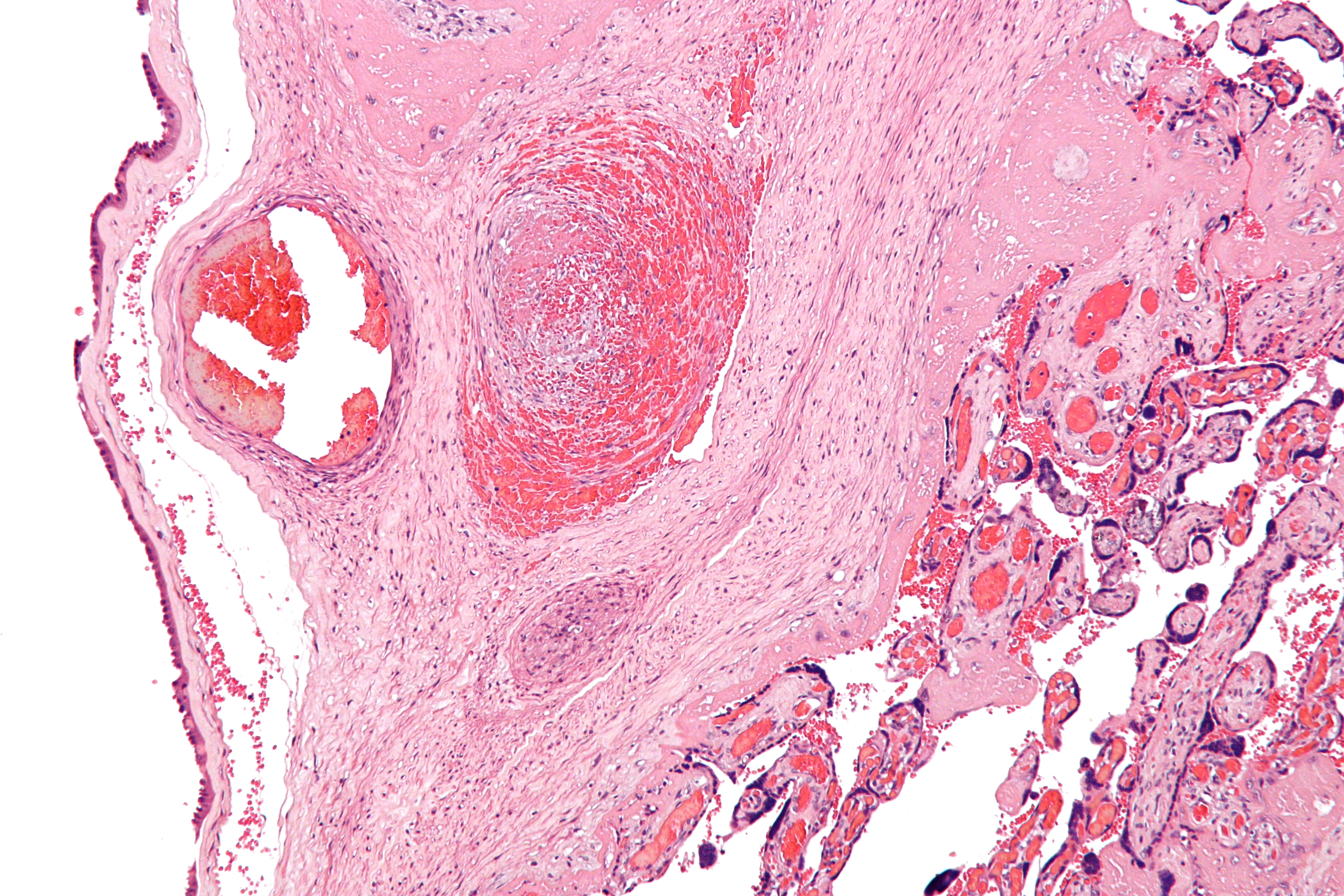 Intermediate magnification micrograph of fetal thrombotic vasculopathy. H&E stain. Histopathologically, it is characterized by:[1] Clustered fibrotic chorionic villi without blood vessels. Thrombi in fetal vessels. Clinically, it is associated with cerebral palsy, and stillbirth. Related images Low mag. Intermed. mag. High mag. Very high mag. References ↑ (Jul 1999). "Fetal thrombotic vasculopathy in the placenta: cerebral thrombi and infarcts, coagulopathies, and cerebral palsy.". Hum Pathol 30 (7): 759-69.